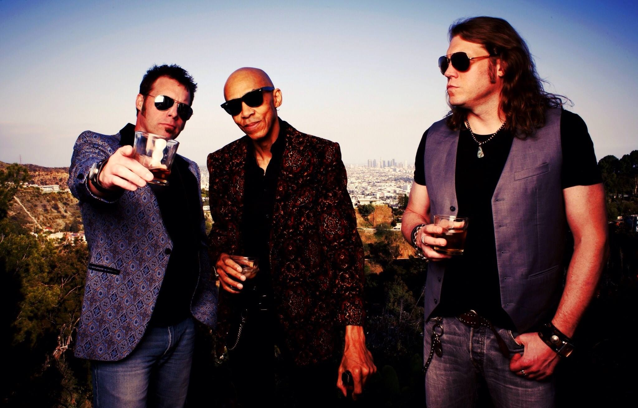 Photo of Grinder Blues